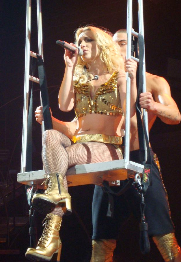 Spears